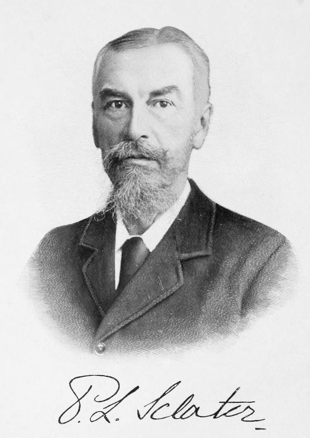 Philip Lutley Sclater, portrait and signature. This version was published with Sclater's obituary in The Auk in 1914. The image itself is from 1896 or earlier, as it appears on the frontispiece of The published writings of Philip Lutley Sclater, 1844-1896.